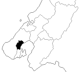 Wellington Central electorate boundaries 1990-1993